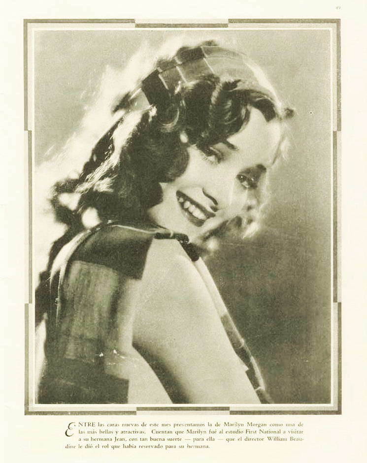 Publicity photo of Marian Marsh (aka Marilyn Morgan) for Argentinean Magazine. (Printed in USA)